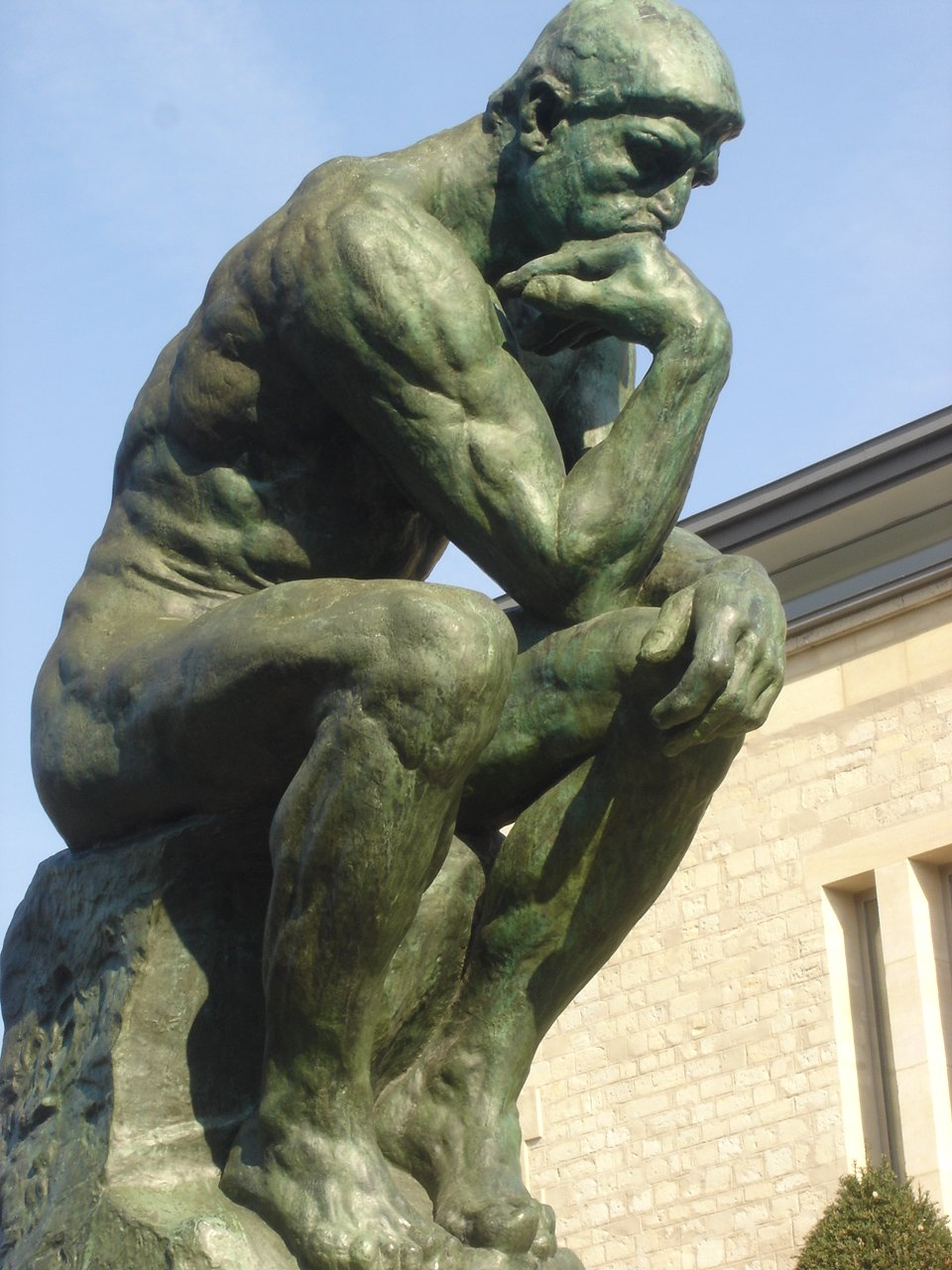 The Thinking Man sculpture at Musée Rodin in Paris